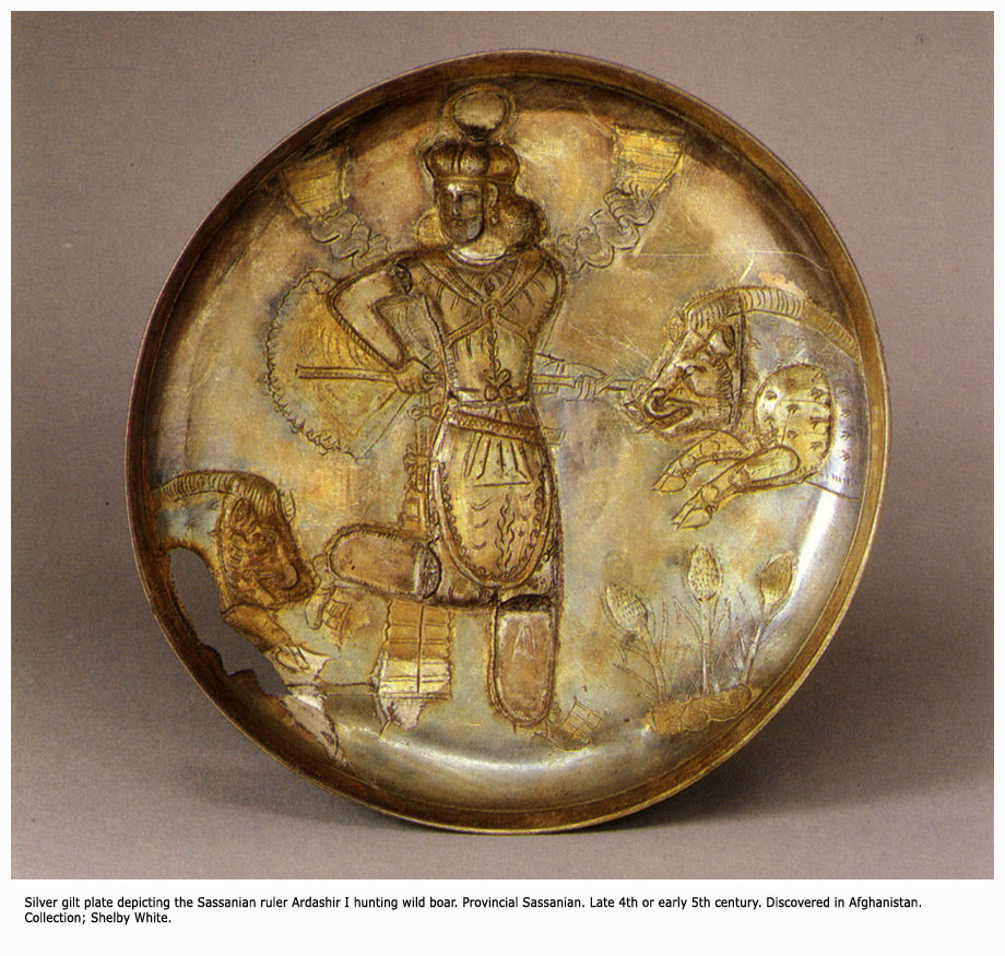 Silver gilt plate depicting the Sasanian ruler Ardashir I hunting wild boar. Provincial Sasanian. Late 4th or early 5th century. Discovered in Afghanistan. Collection; Shelby White.